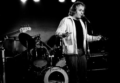 Performance at The Edge, Toronto June 5th, 1981